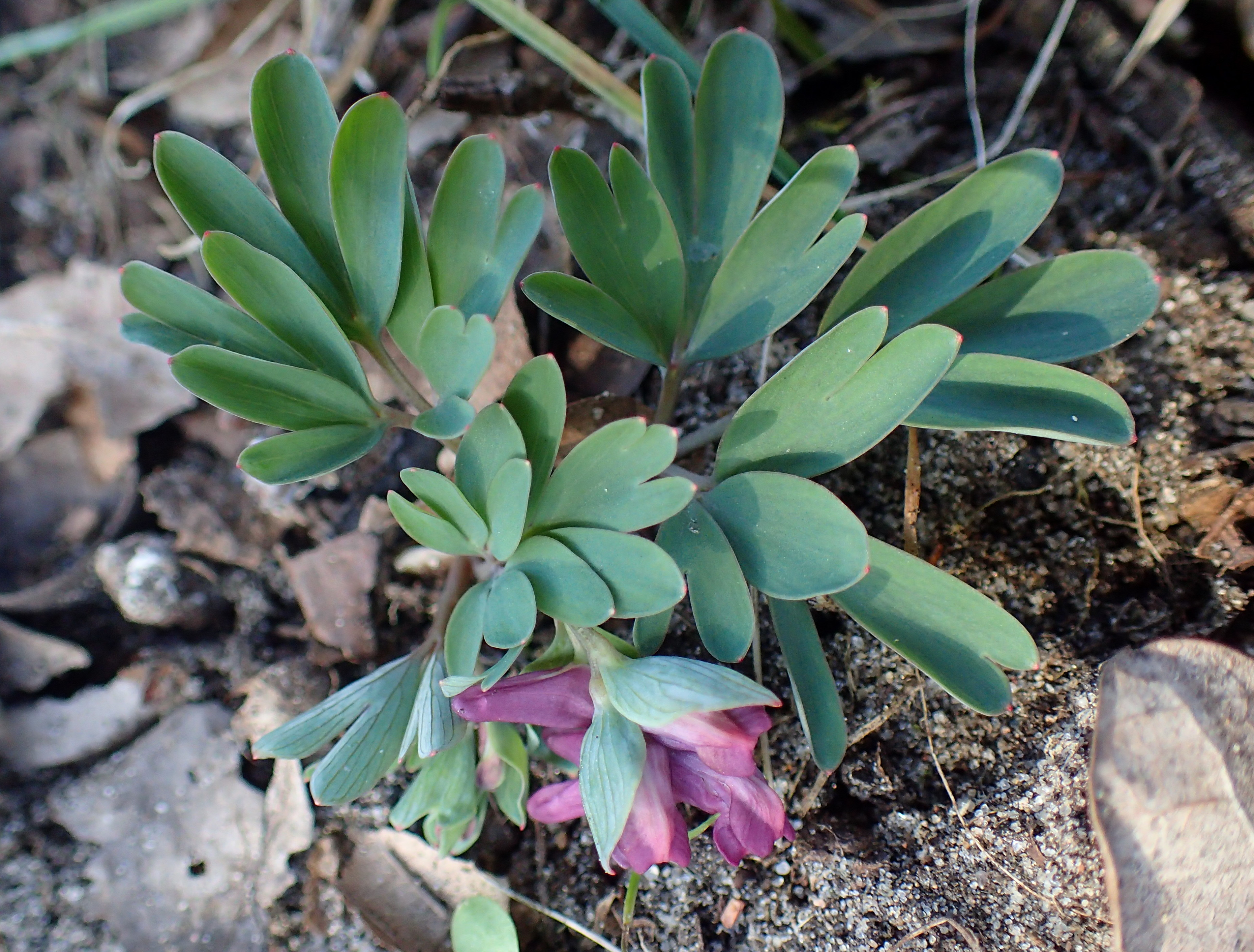 Corydalis intermedia in Płoty, NW Poland.